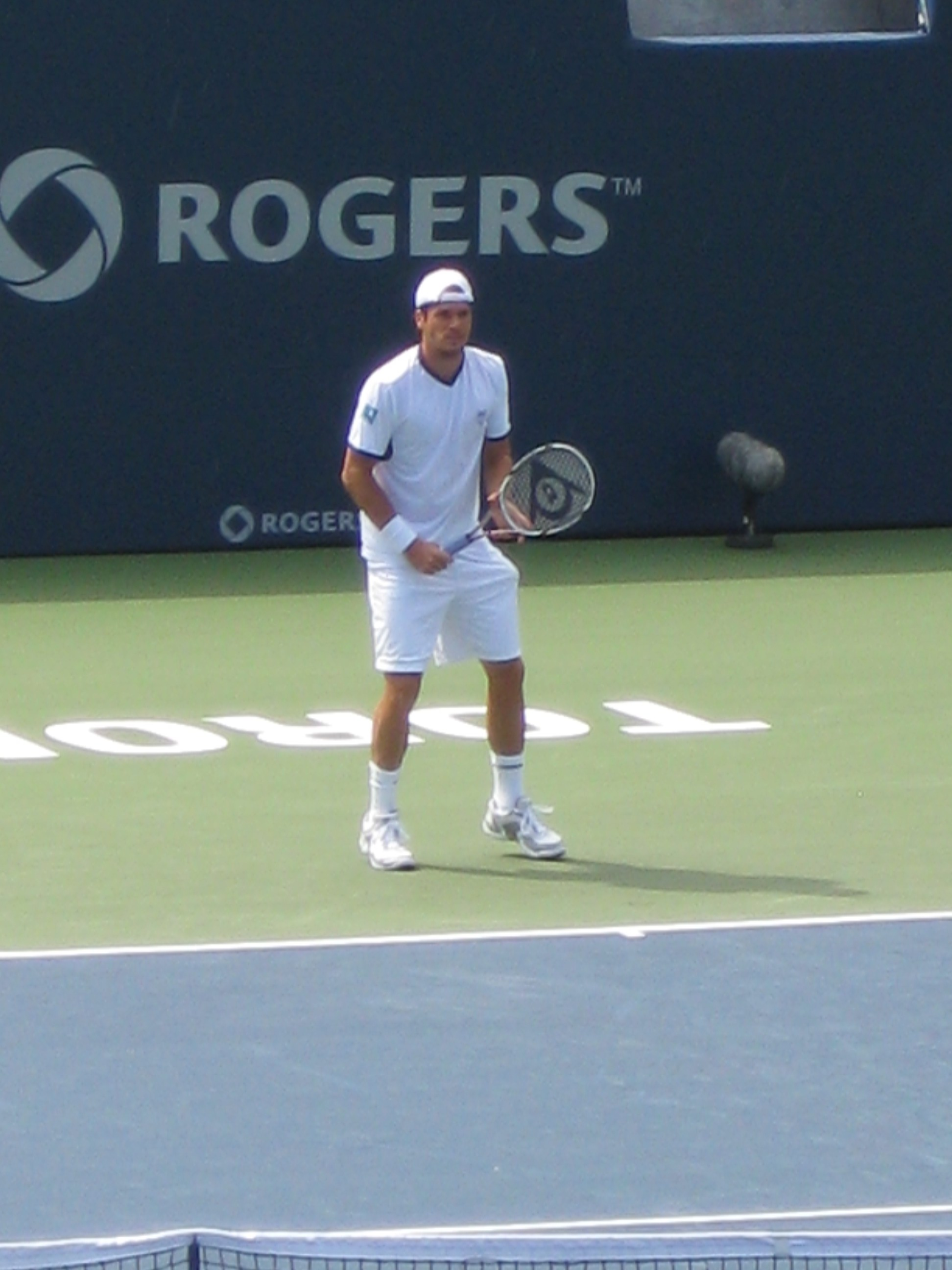 German tennis player Tommy Haas at the 2008 Rogers Cup in Toronto, Ontario, Canada in a match against Spanish player Carlos Moyà.